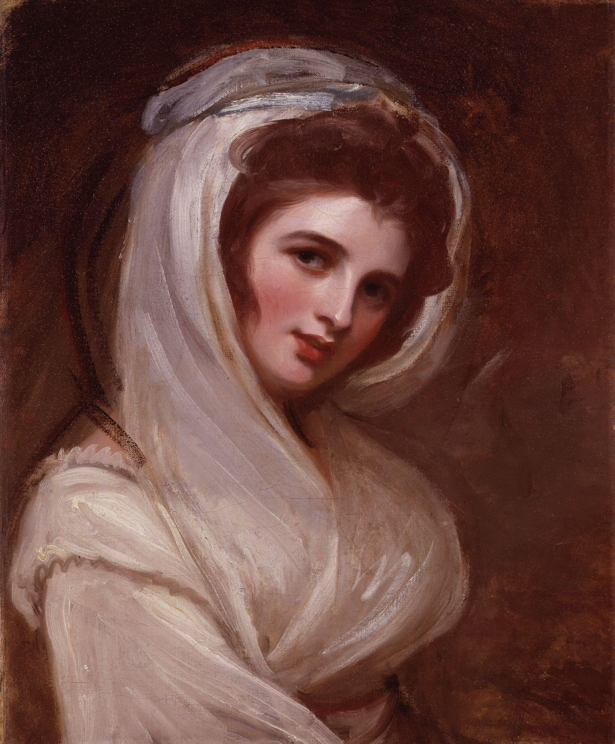 Emma, Lady Hamilton, by George Romney (died 1802).